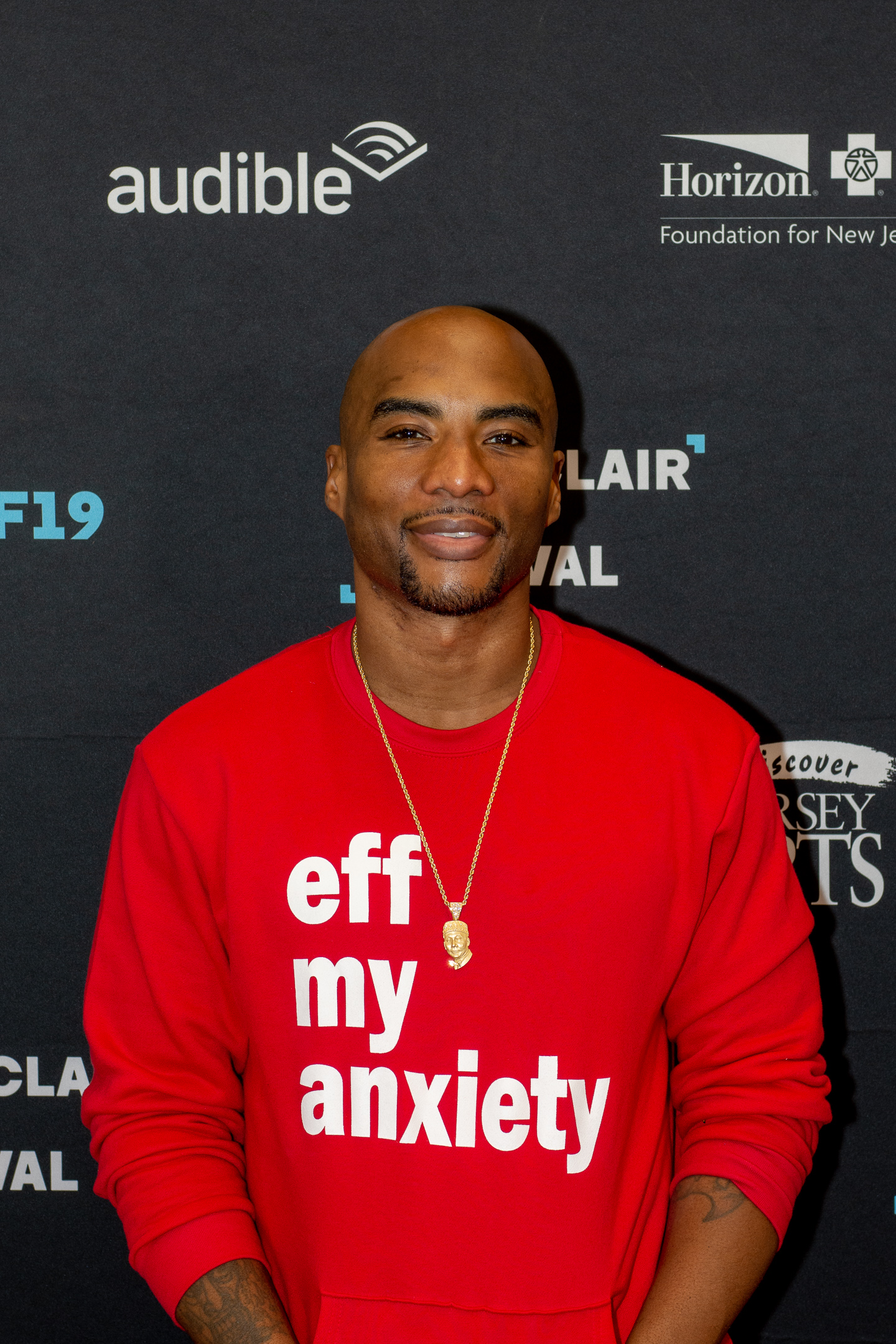 Photography by Dave Hubelbank